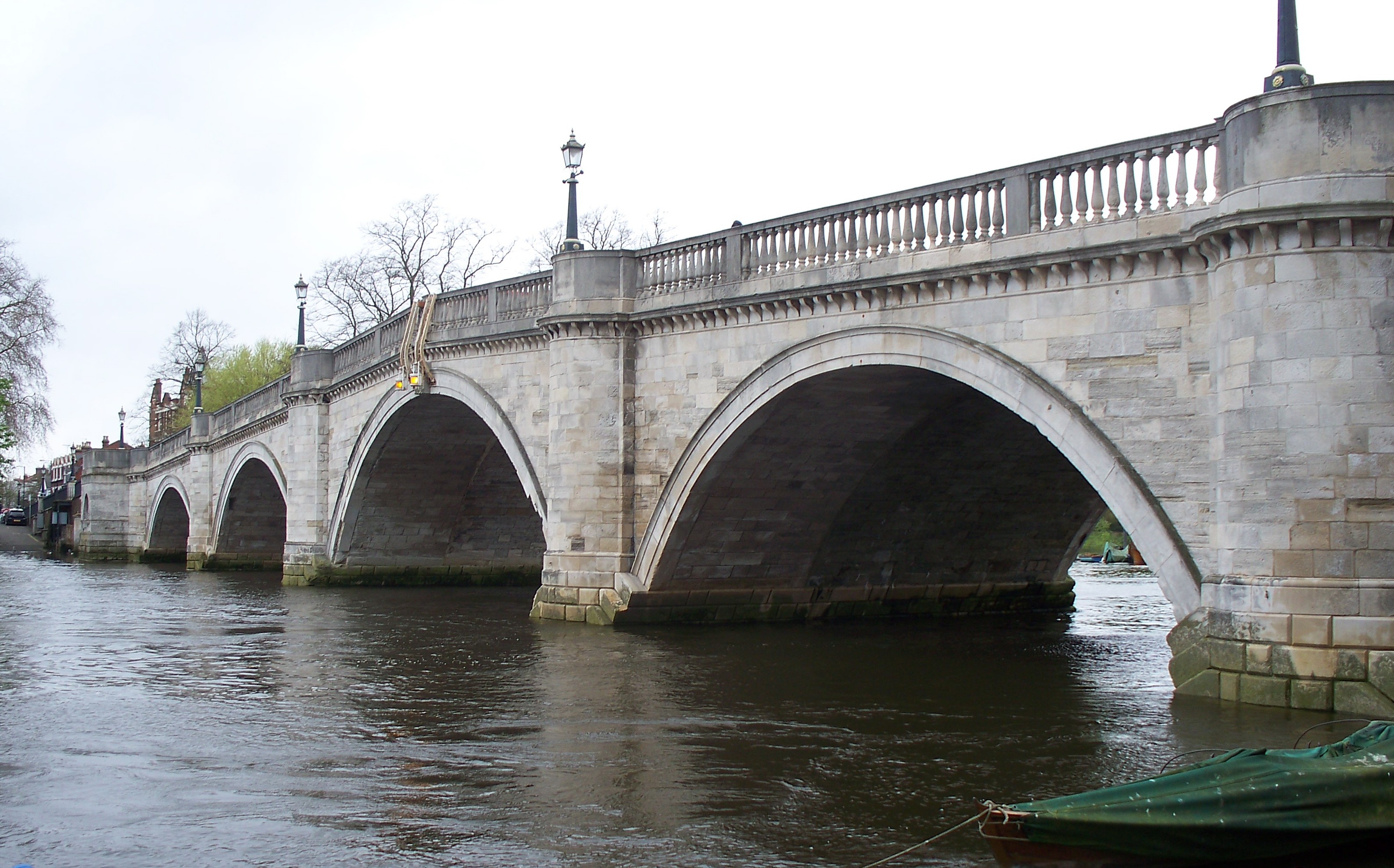 Richmond Bridge, Richmond, London. Photograph taken in a public location in the UK of a building on permanent public display, and exempt from copyright under Section 62 of the Copyright Designs & Patents Act 1988 ("it is not an infringement of copyright to film, photograph, broadcast or make a graphic image of a building, sculpture, models for buildings or work of artistic craftsmanship if that work is permanently situated in a public place or in premises open to the public")